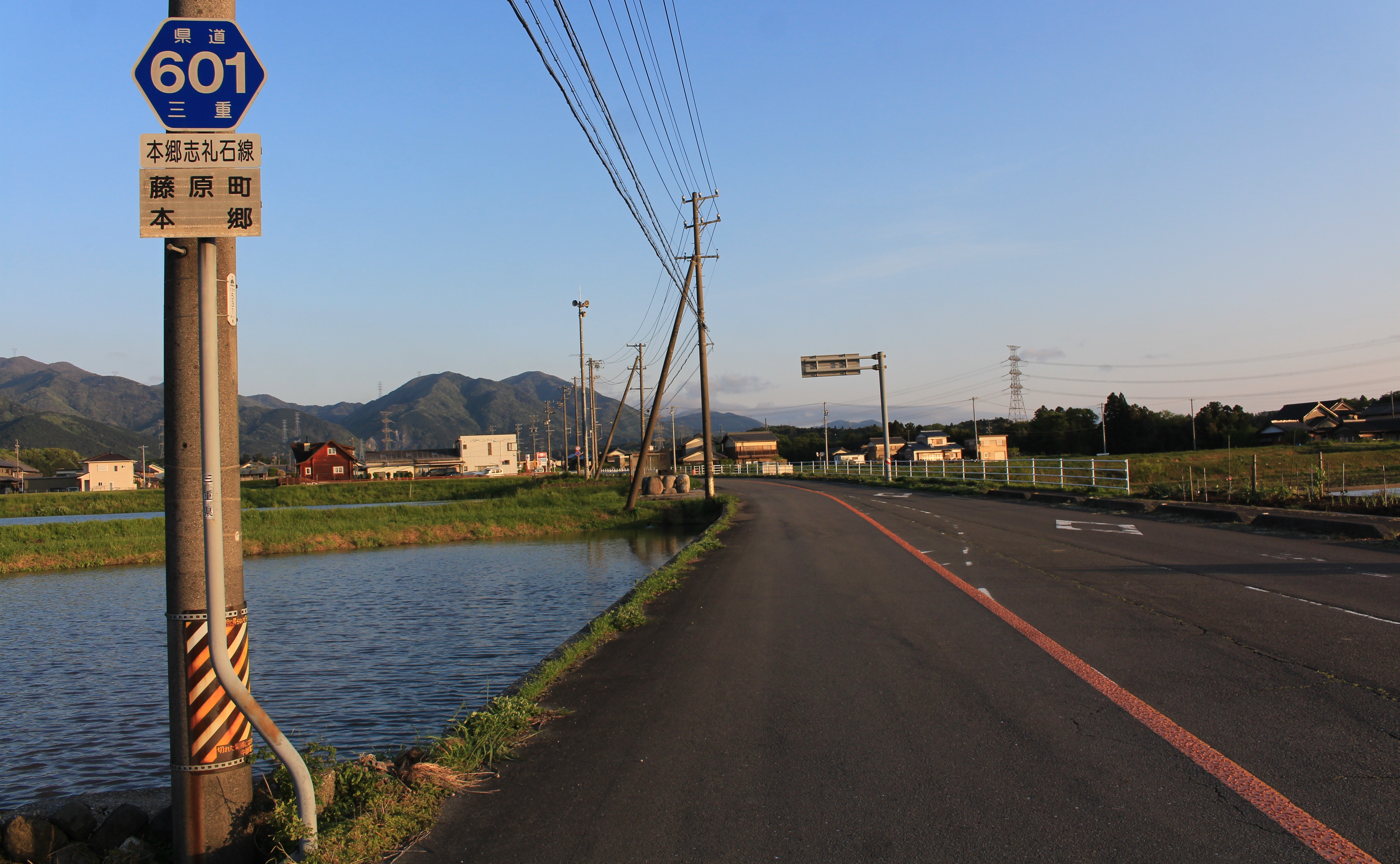 Mie Prefectural Road Route 601, in Hongō, hujiwara, Inabe, Mie prefecture, Japan.